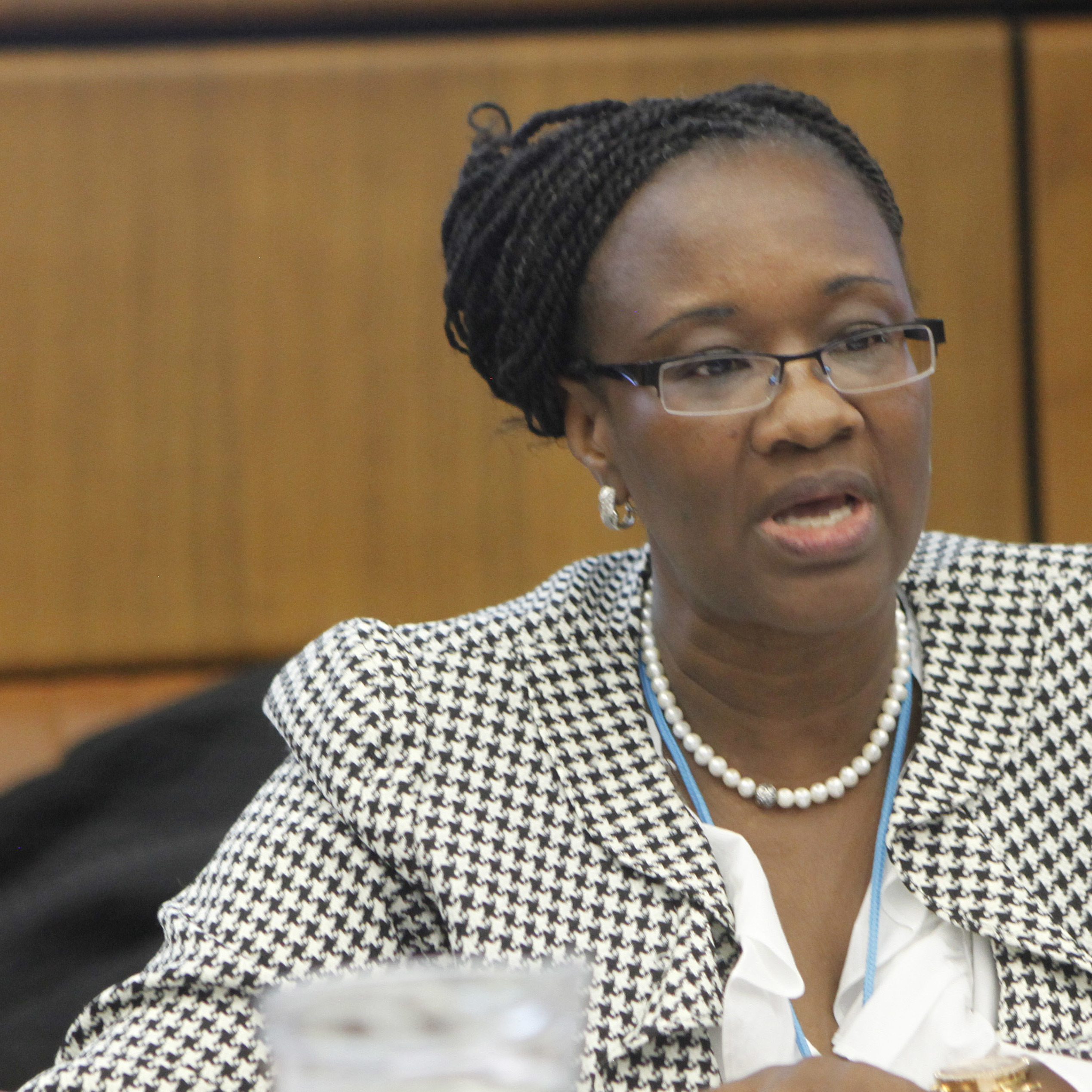 VIENNA, 5 November 2014 - Bintou Djibo, UN Resident Coordinator in Senegal, talks about industrialization in the country at the Second UNIDO forum on partnerships to scale up investment for inclusive and sustainable industrial development, in Vienna 5 November 2014.